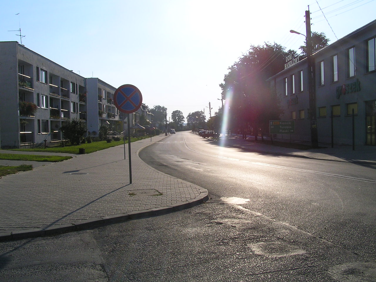 autor: Yarek shalom 08:40, 11 October 2006 (UTC)yarek shalom